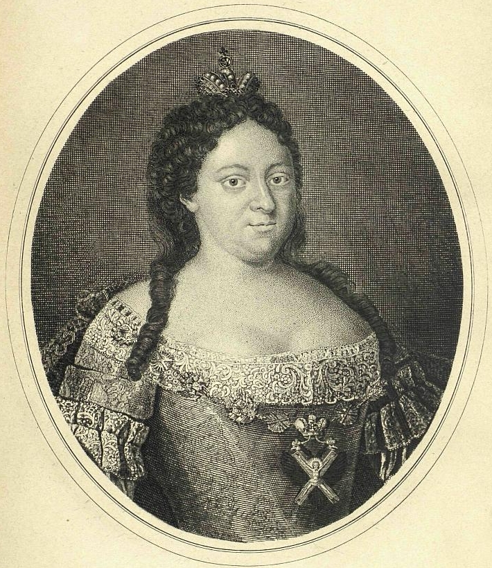 Portrait of Anna of Russia (1693-1740)